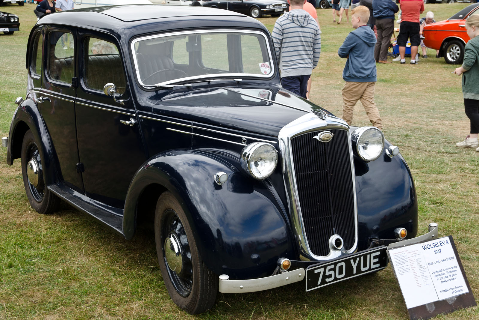 Wolseley 8 1947, 918 cc Bodelwyddan Classic Car Show 21/07/2013